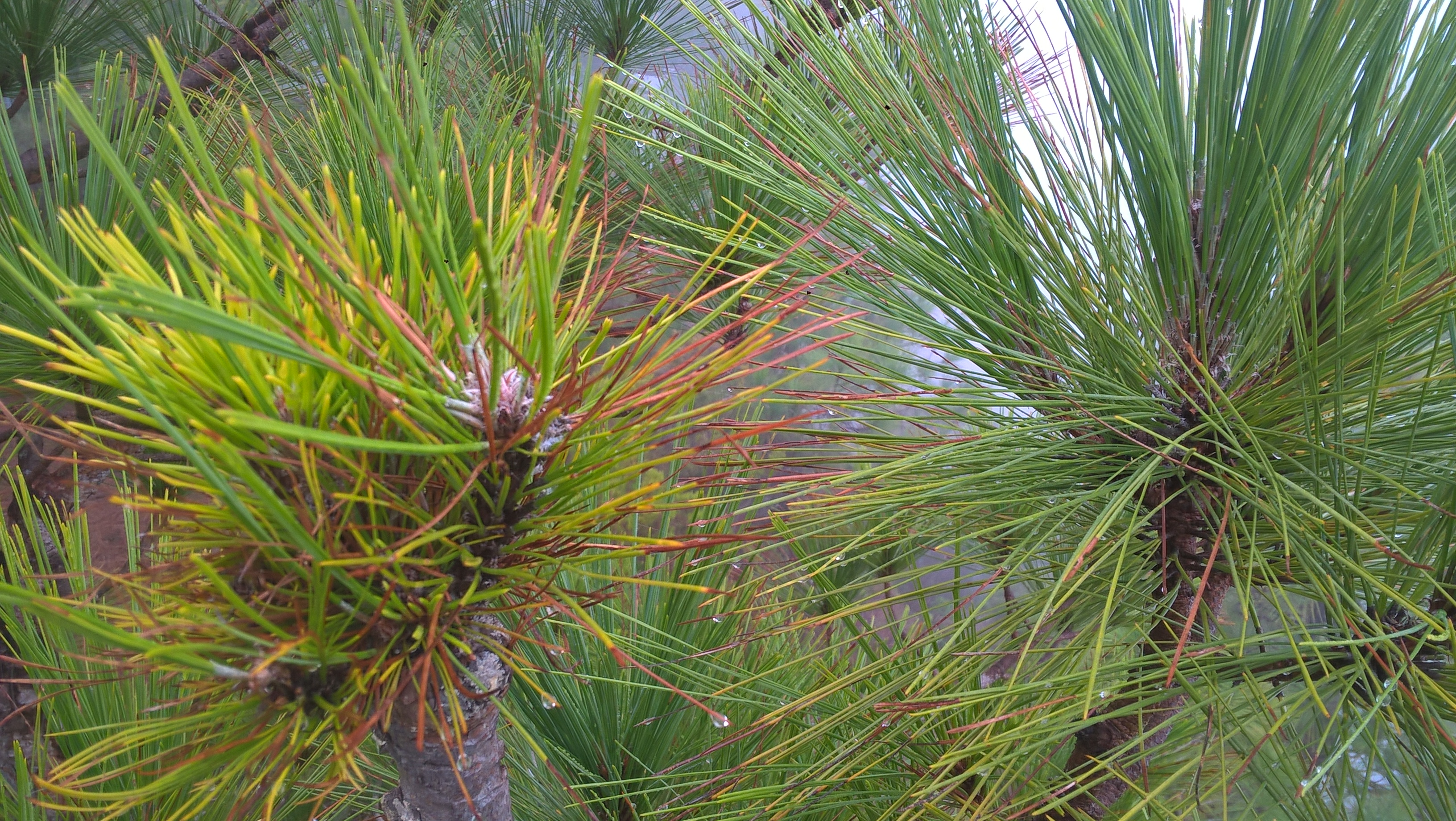 Dew drops on pine needles in the fog in Puntagorda, La Palma.